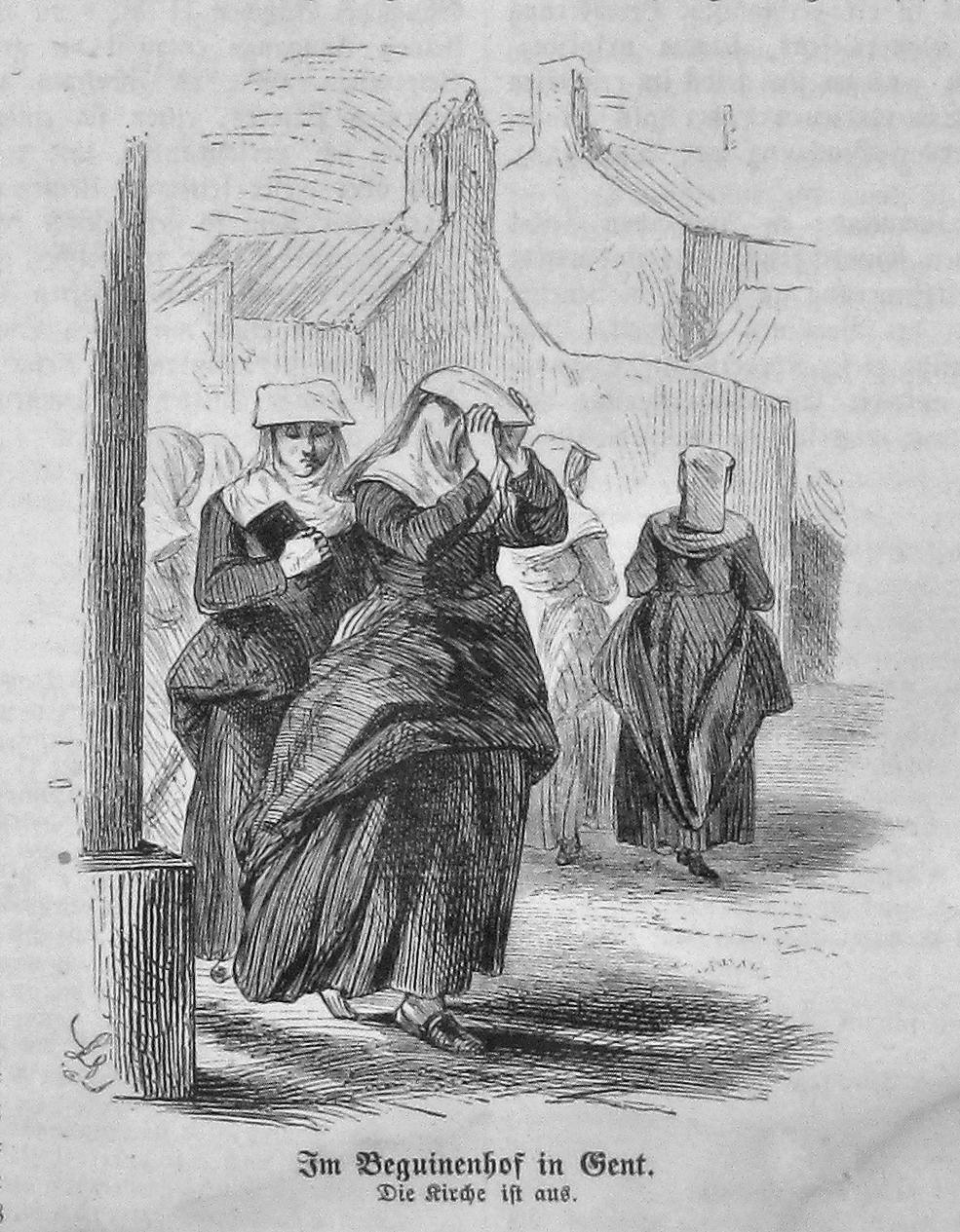 caption: "Im Beguinenhof in Gent. Die Kirche ist aus."